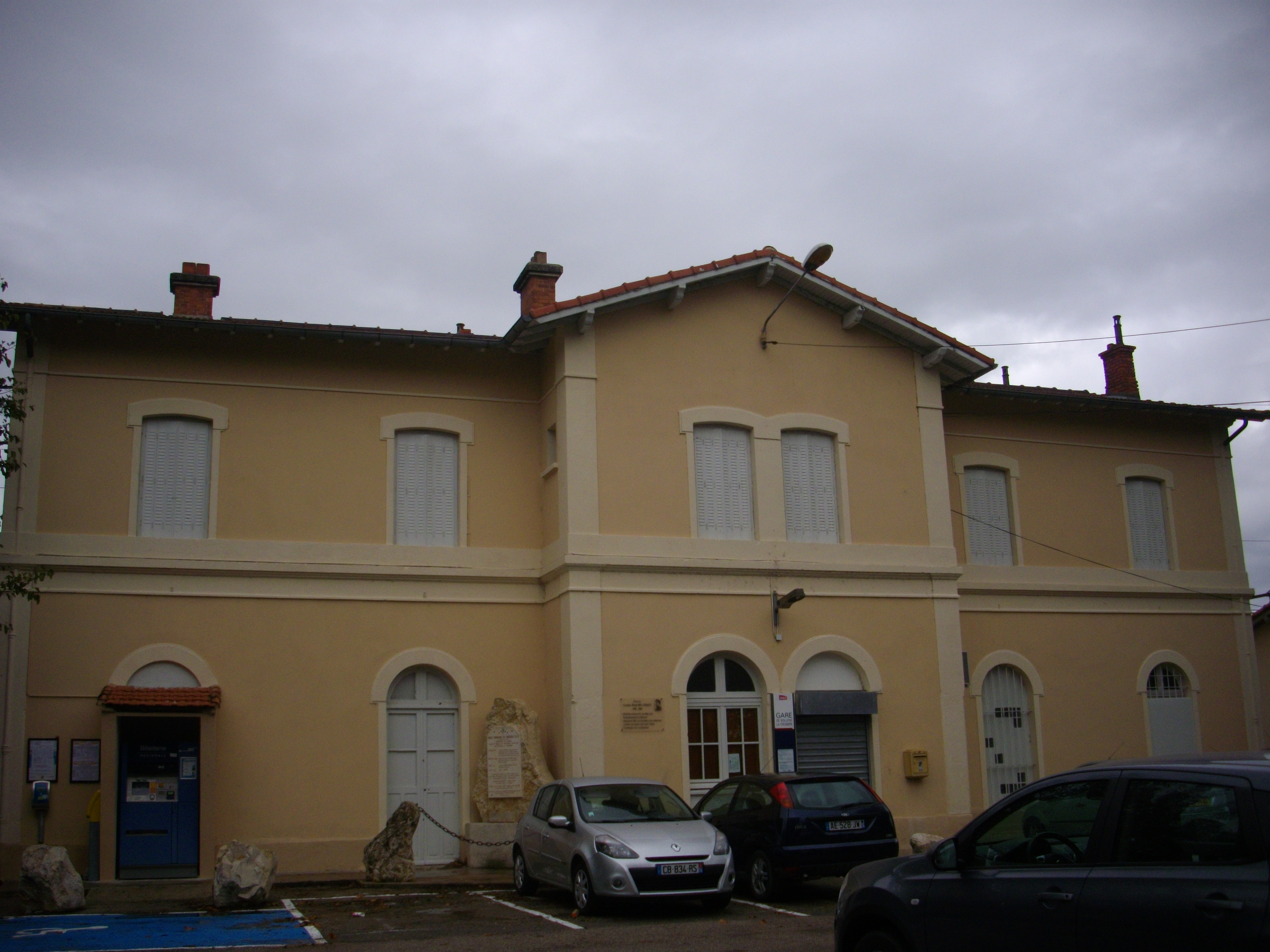 Bollène-La Croisière train station (Vaucluse, France)